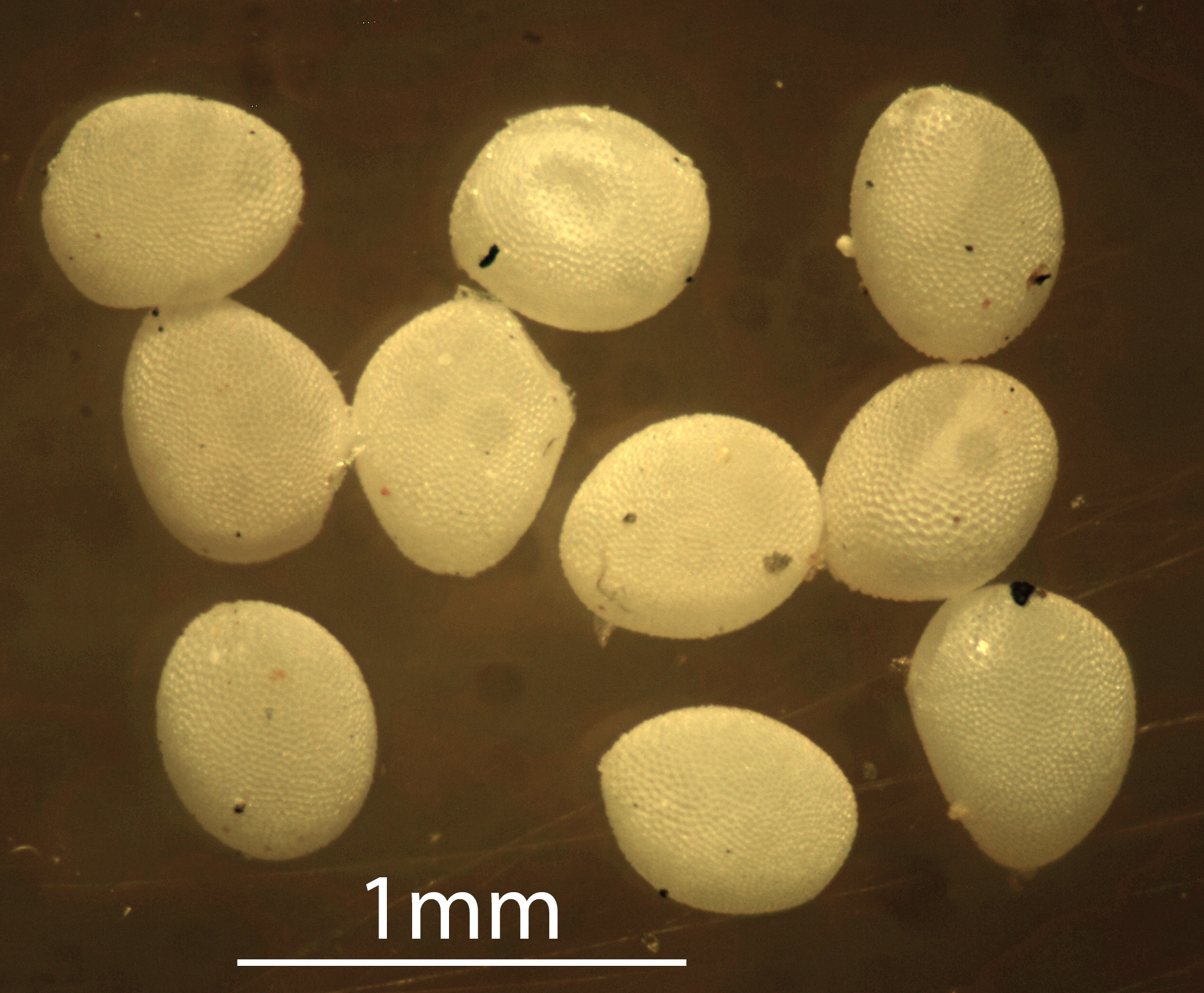 Common house borer (or common furniture beetle) eggs.